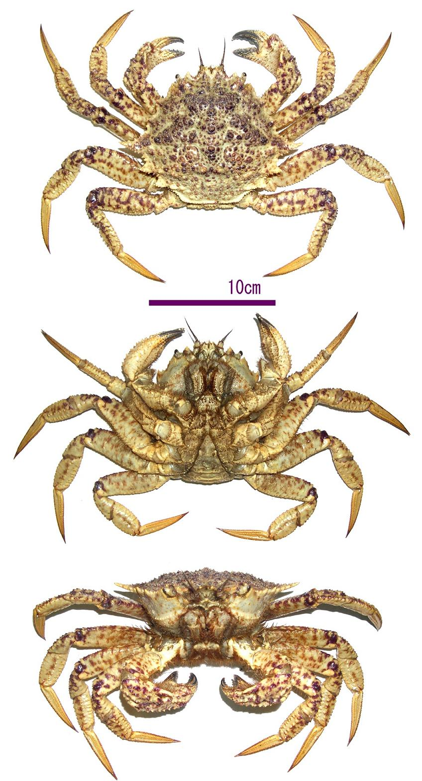 Telmessus cheiragonus (Tilesius, 1812) (Decapoda: Cheiragonidae):male From the Sea of Okhotsk along the north east coast of Hokkaido, Japan. ja: クリガニ（雄：クリガニ科）北海道北東部沿岸産